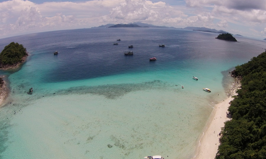 อุทยานแห่งชาติหมู่เกาะช้าง